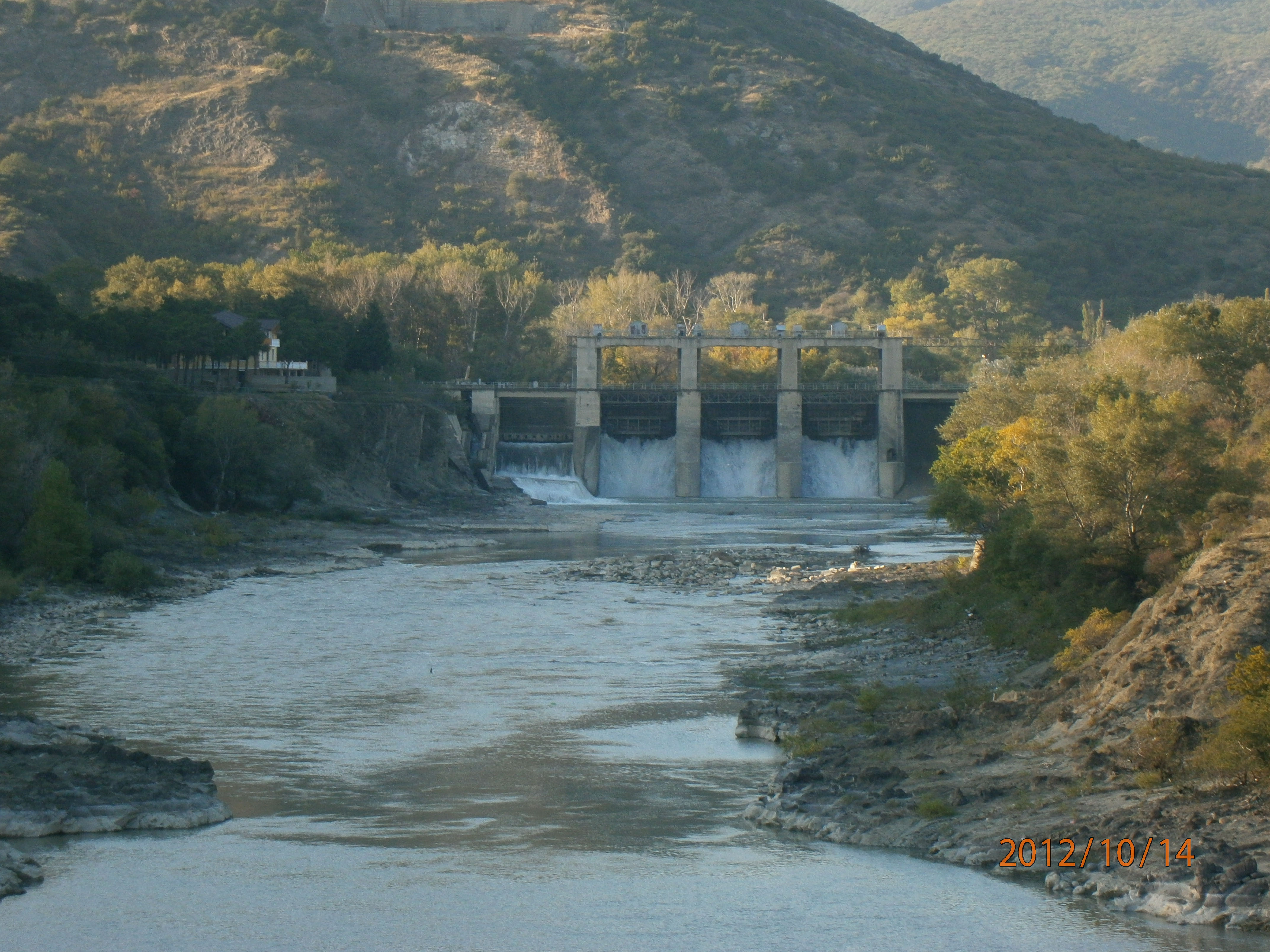 Mukhatgverdi, Tbilisi.